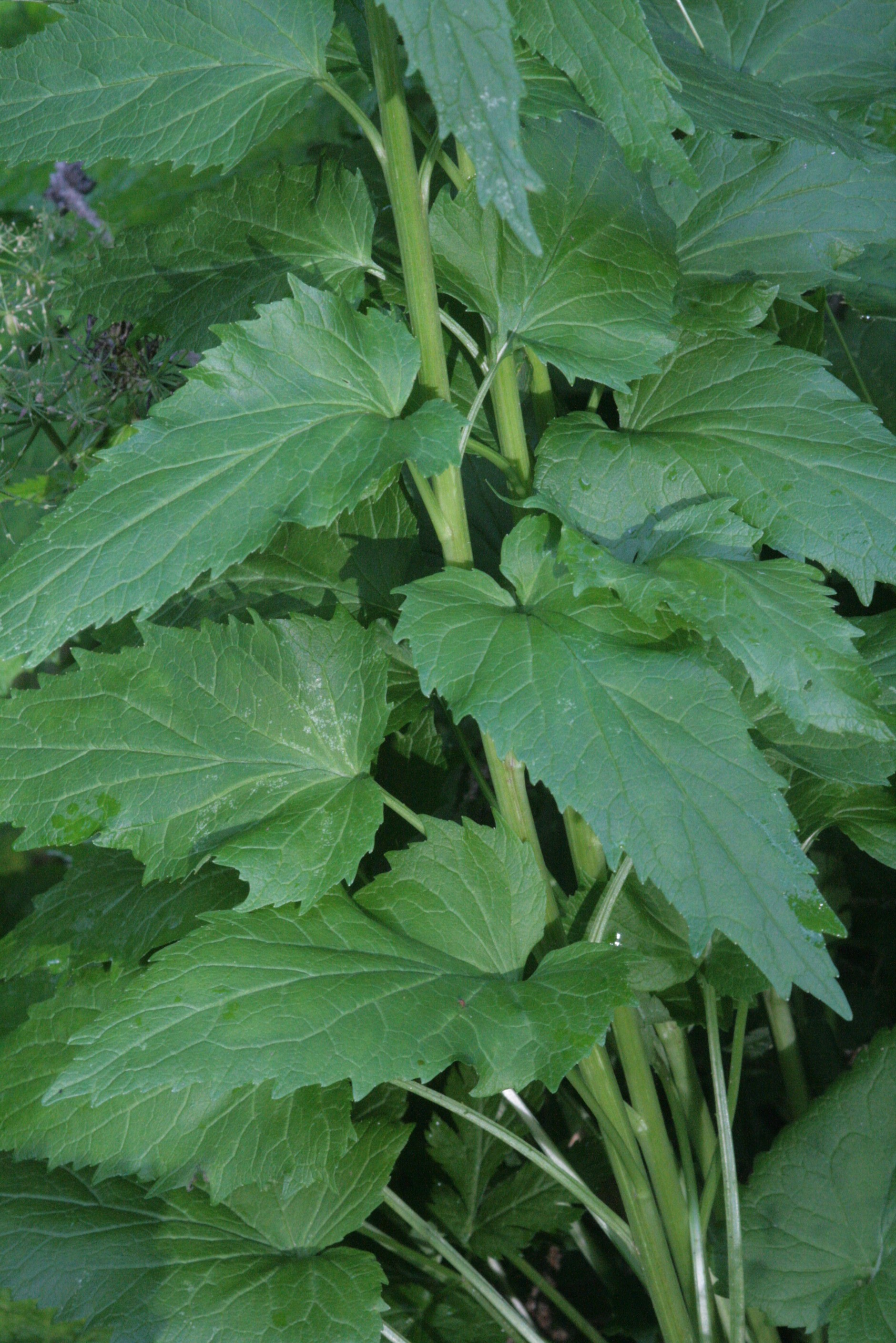 Phyteuma ovatum